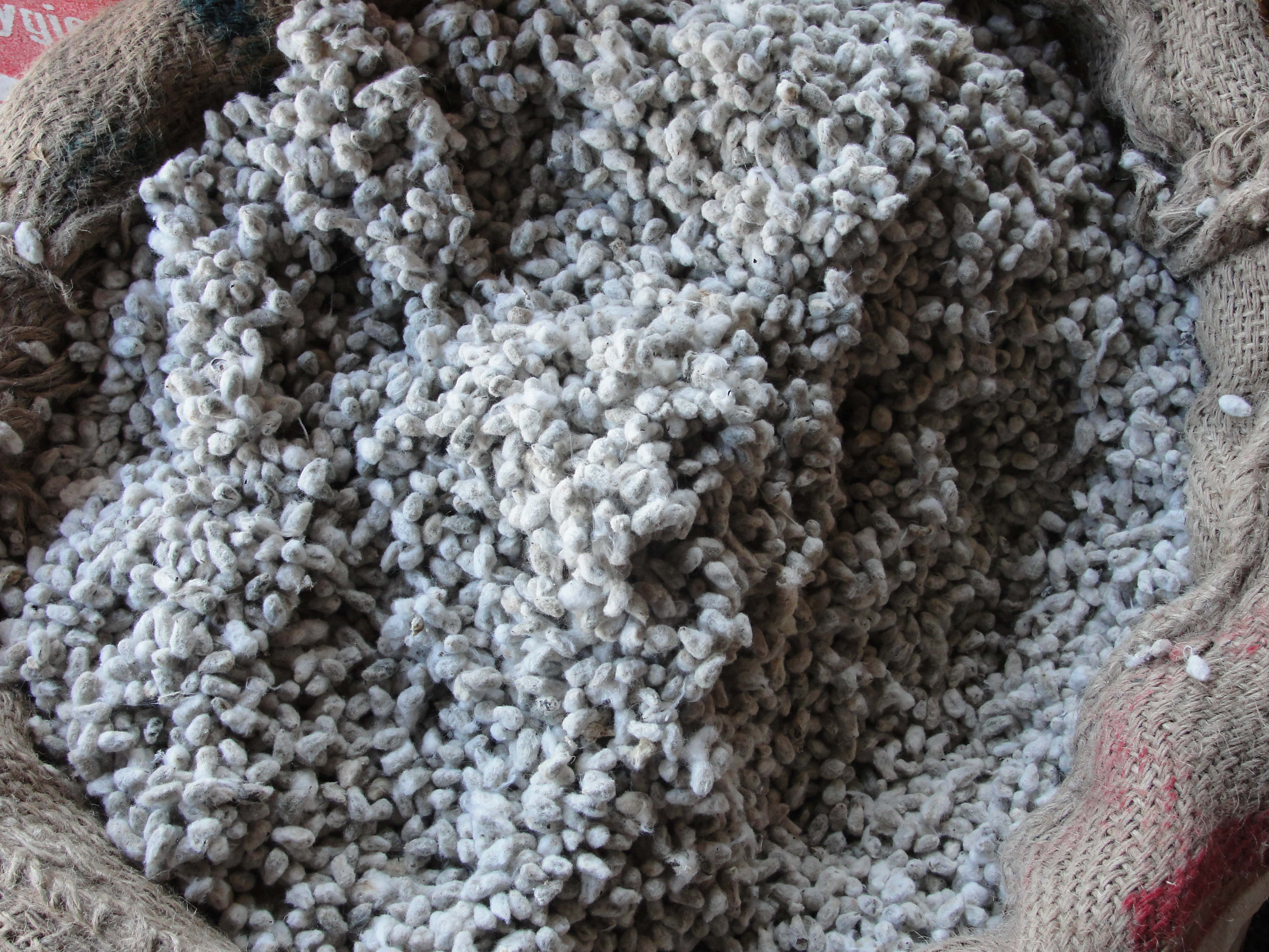 Cottonseeds for cattle